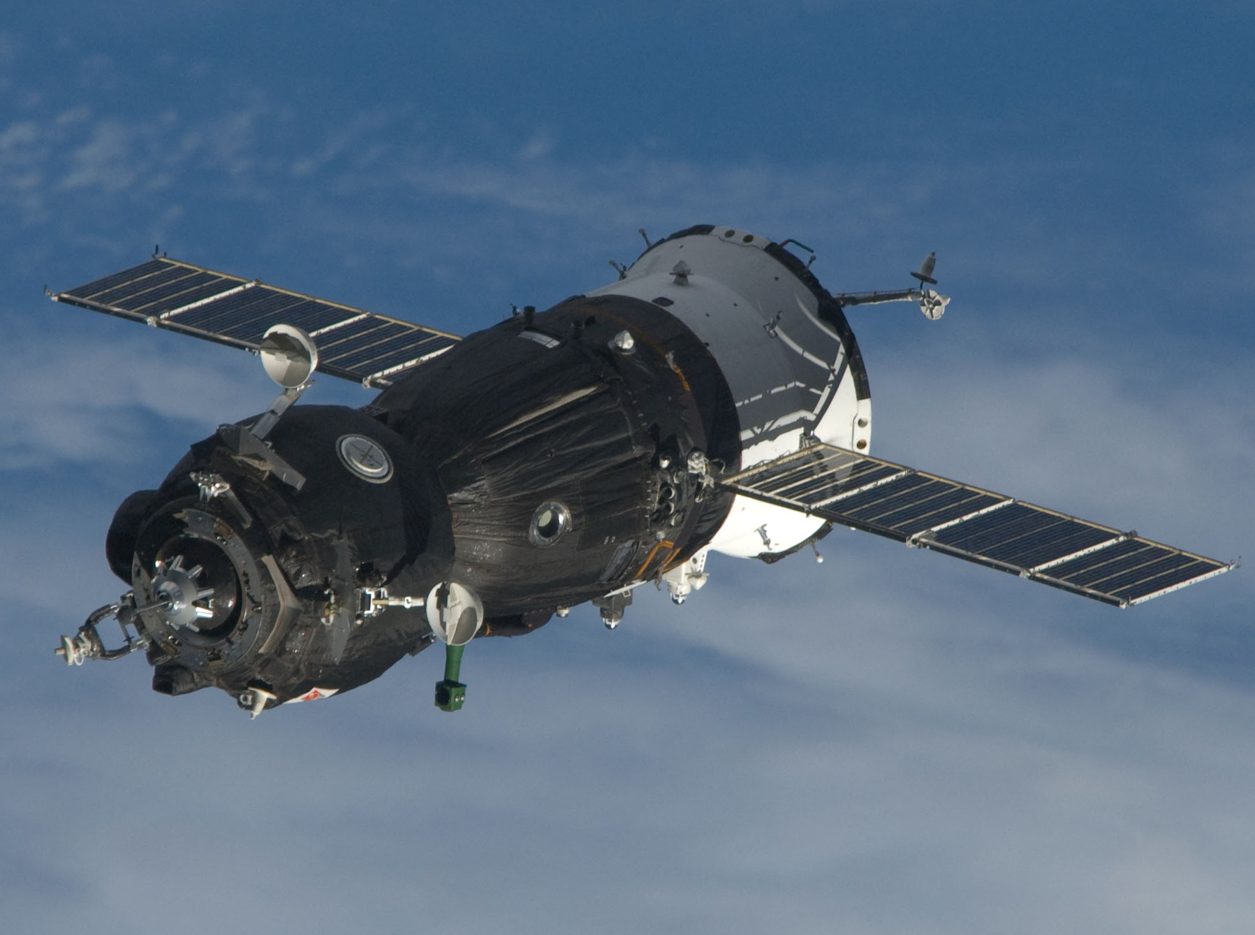 ISS022-E-014333 (22 Dec. 2009) --- The Soyuz TMA-17 spacecraft approaches the International Space Station, carrying Russian cosmonaut Oleg Kotov, Soyuz commander and Expedition 22 flight engineer; along with NASA astronaut T.J. Creamer and Japan Aerospace Exploration Agency astronaut Soichi Noguchi, both flight engineers. Docking to the Zarya nadir port occurred at 4:48 p.m. (CST) on Dec. 22, 2009. The trio launched aboard the Soyuz TMA-17 spacecraft at 3:52 p.m. on Dec. 20 from the Baikonur Cosmodrome in Kazakhstan.